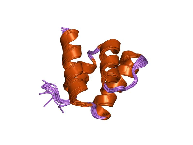 Cartoon representation of the molecular structure of protein registered with 1v66 code.